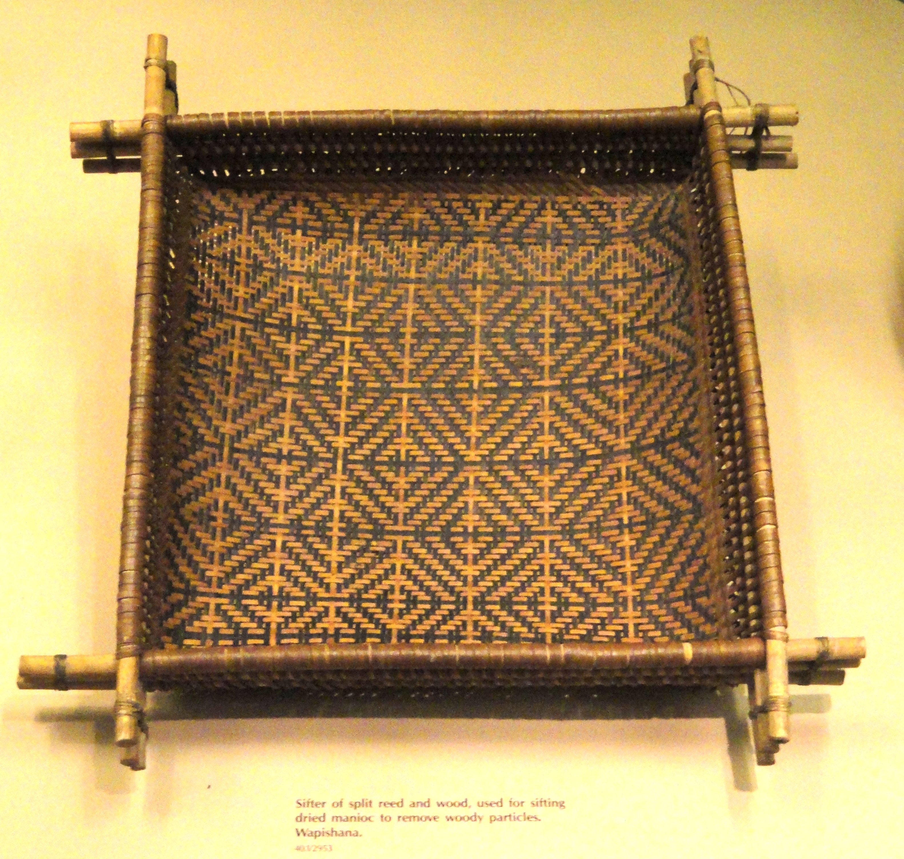 Exhibit in the South American collection of the American Museum of Natural History, Manhattan, New York City, New York, USA.